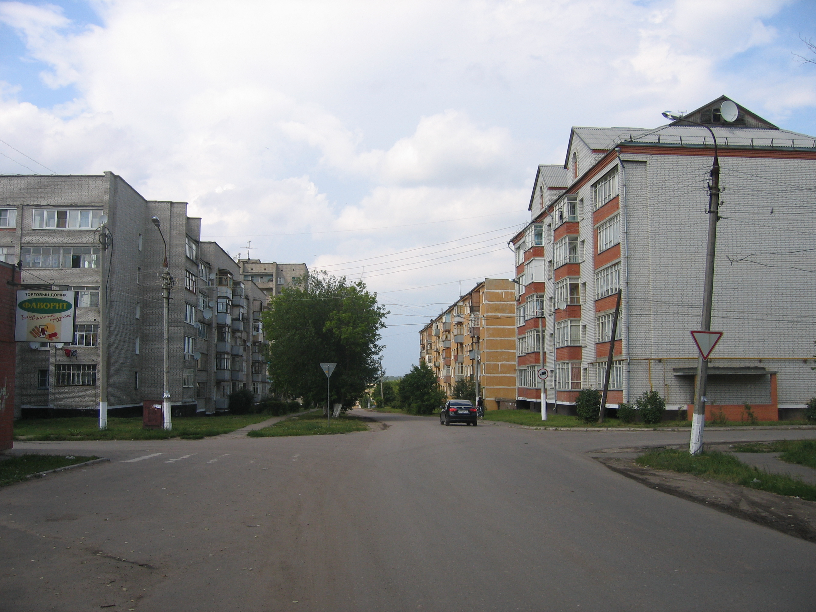 Living blocks in Ozherelye, Moscow Oblast, Russia